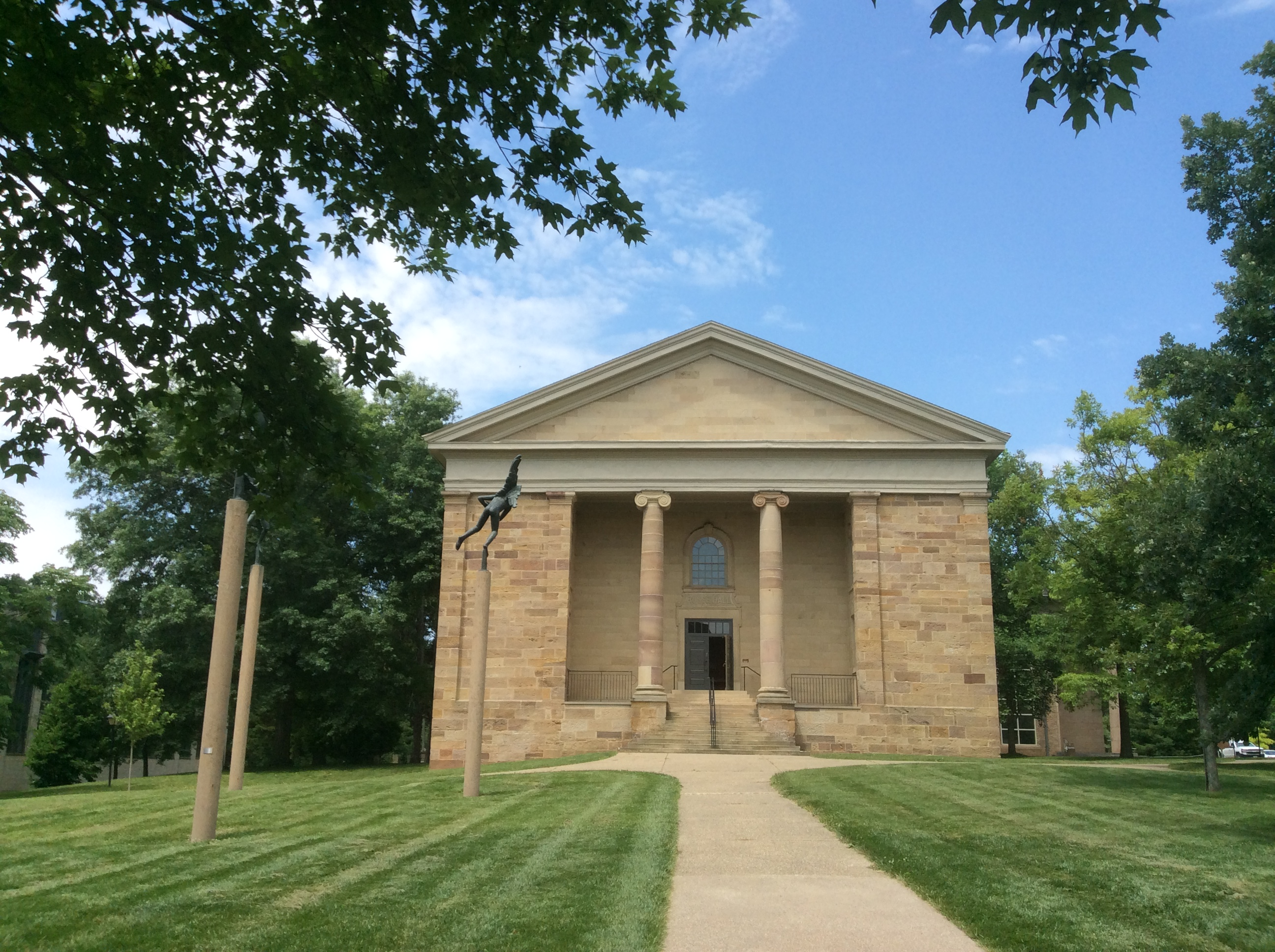 Rosse Hall (1834), Kenyon College, Gambier, Ohio, USA